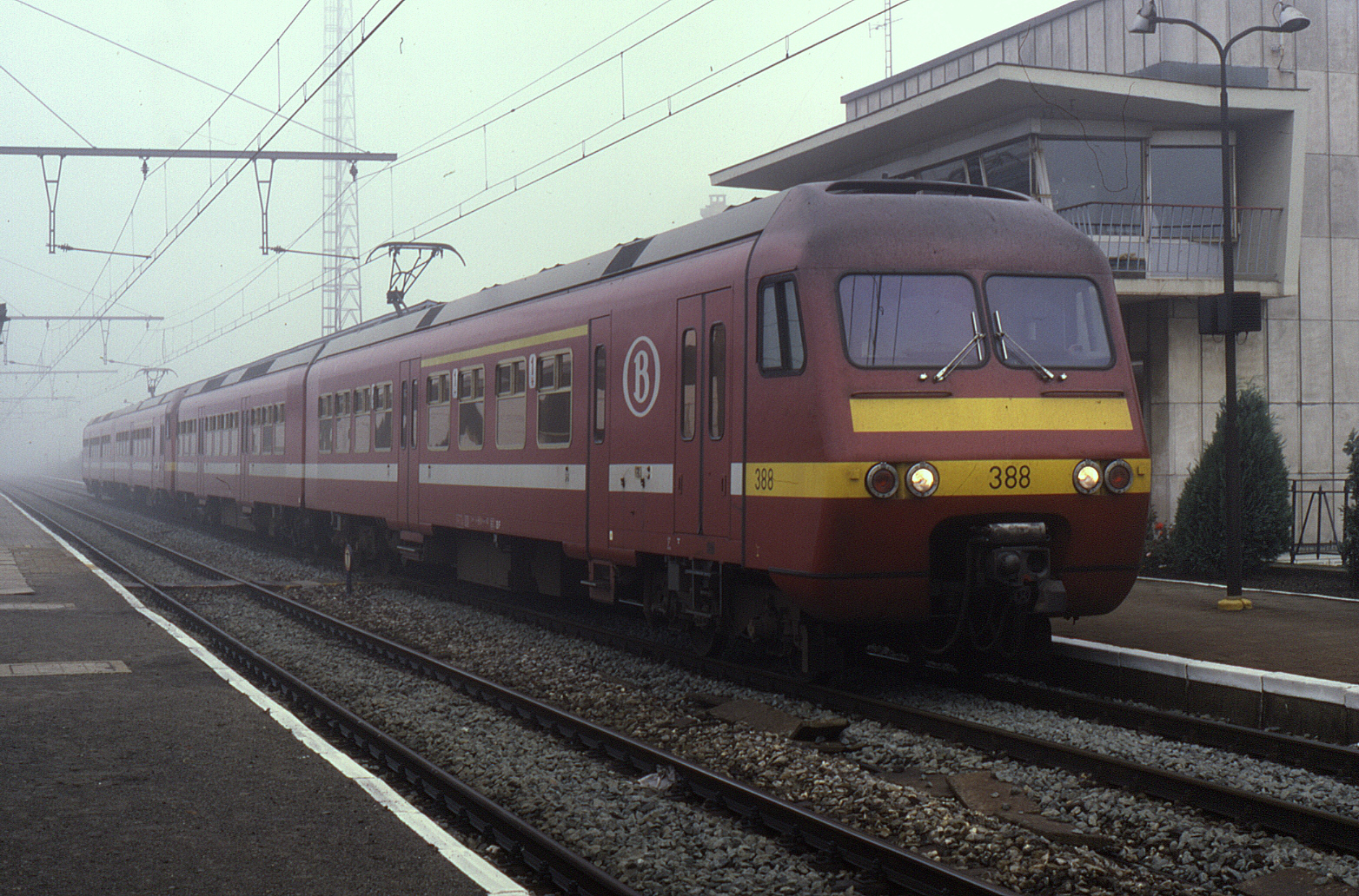 Type AM83 EMUs 388 and behind 386 at Denderleeuw on 8 September 1987.